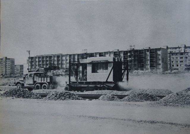 Building proces of Kosice - part Nové mesto/sídlisko Terasa